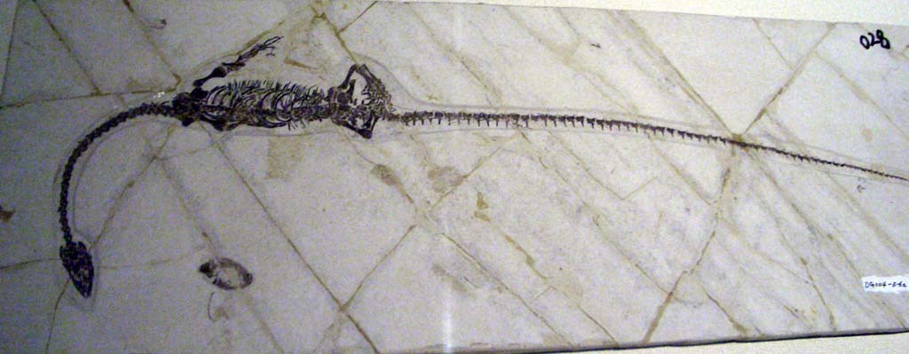 Hyphalosaurus baitaigouensis fossil displayed in Hong Kong Science Museum